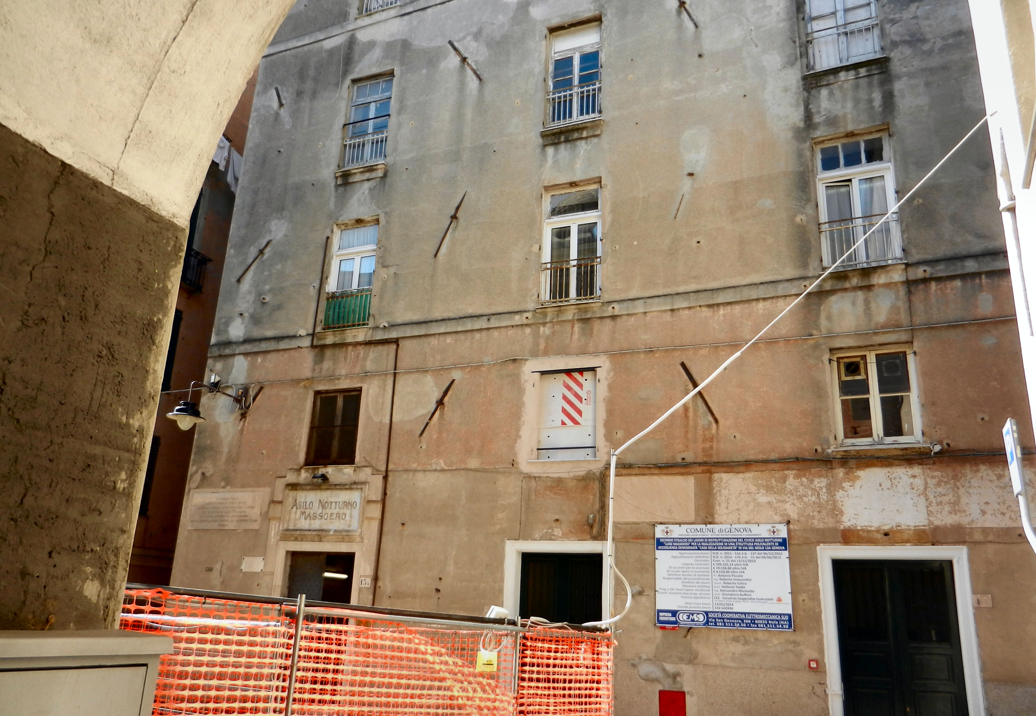 Genoa, Italy, quarter of Molo, the "Massoero" (hystorical dormitory for homeless)